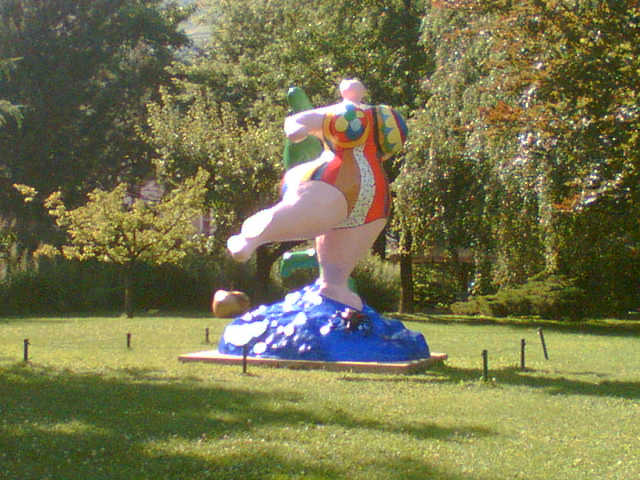 At the Sculpture's Park - - Kiki de St.Phalle - Les Baigneuses